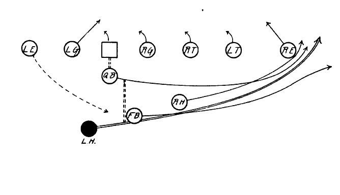 Tackle Over Formation - Left Half Back Run Around Right End.